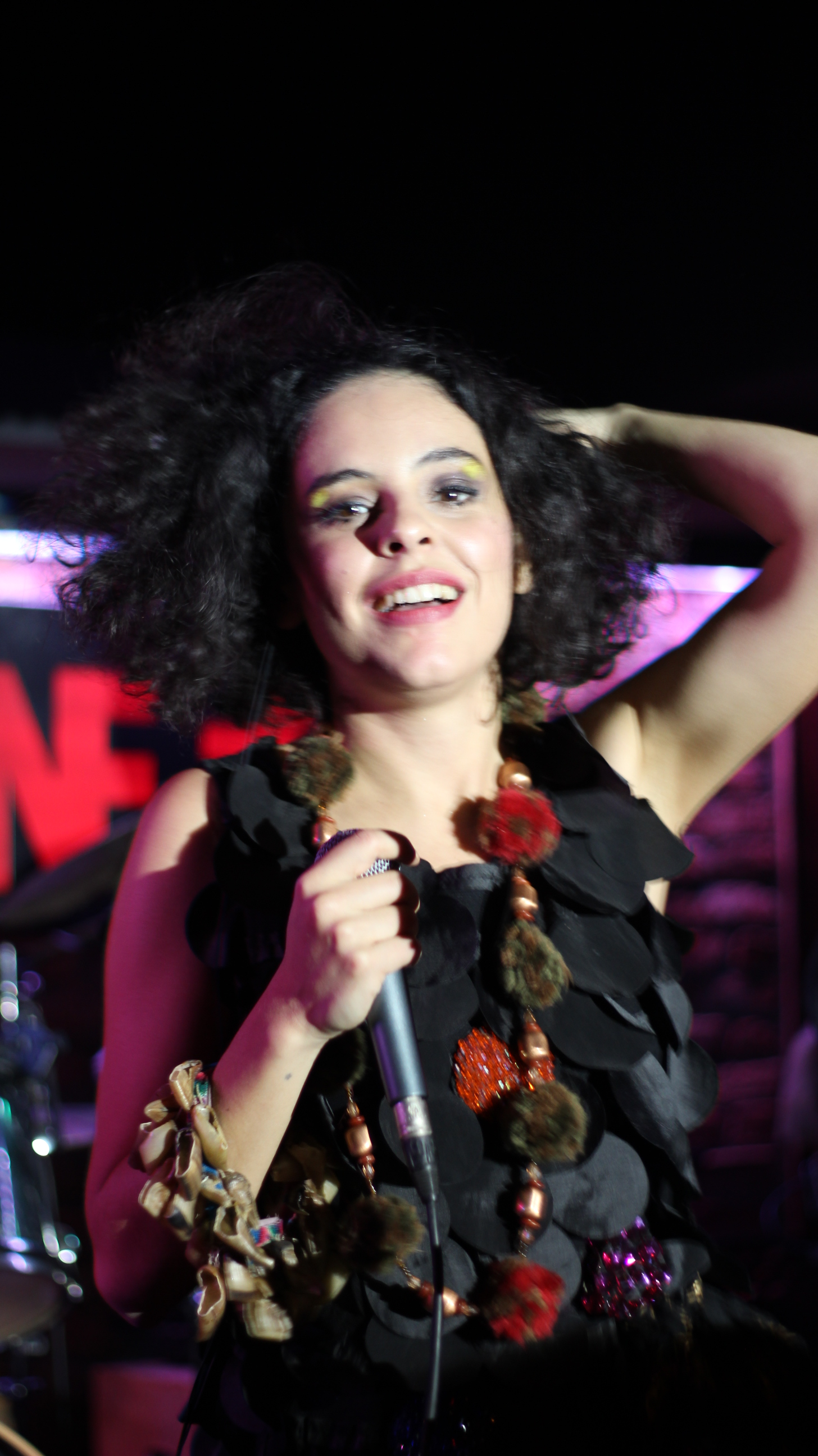 Yasemin Mori, during her concert in Ankara